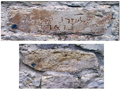 Two old jews tomb in the city wall of Pisa.